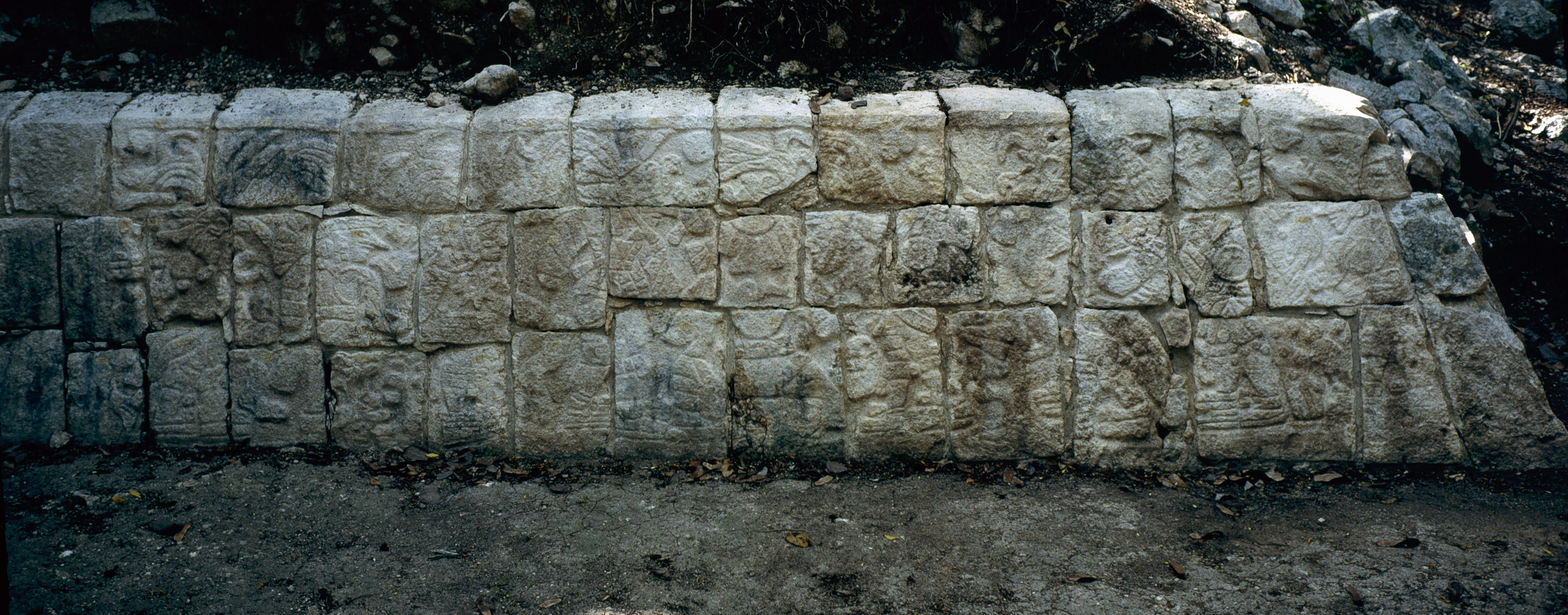 Chichen Itza, Yucatan, Mexico: ball court 3E2